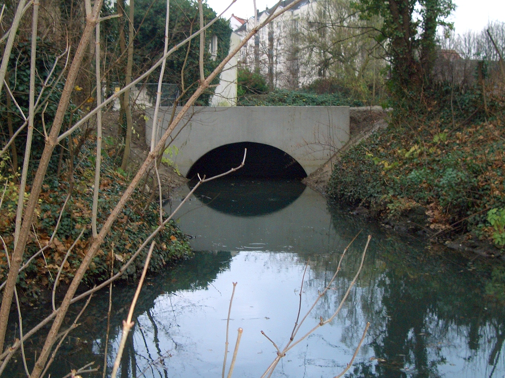 End of Burgmuehlengraben in Brunswick